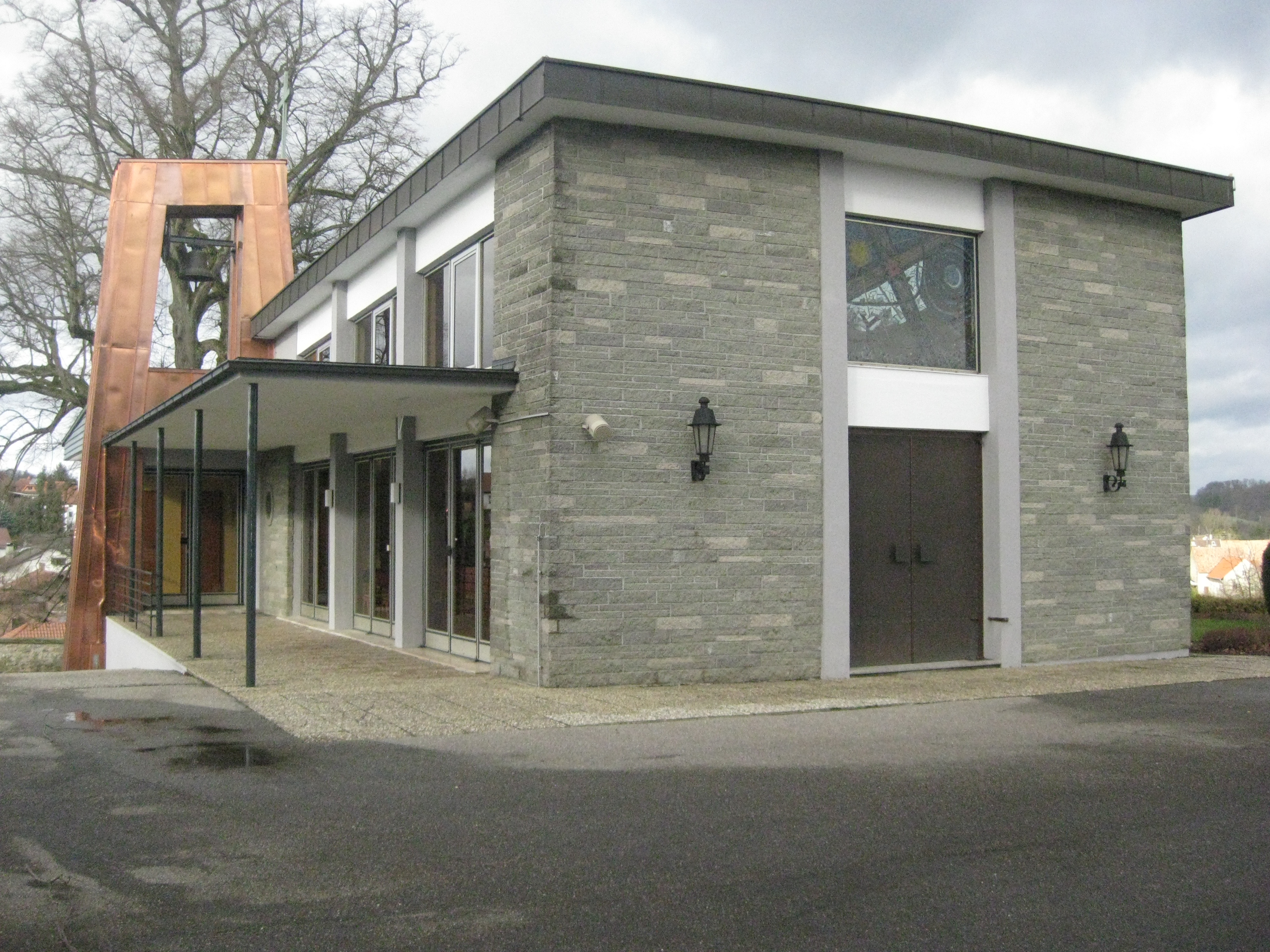 Leichenhalle auf dem Friedhof in Eschelbronn